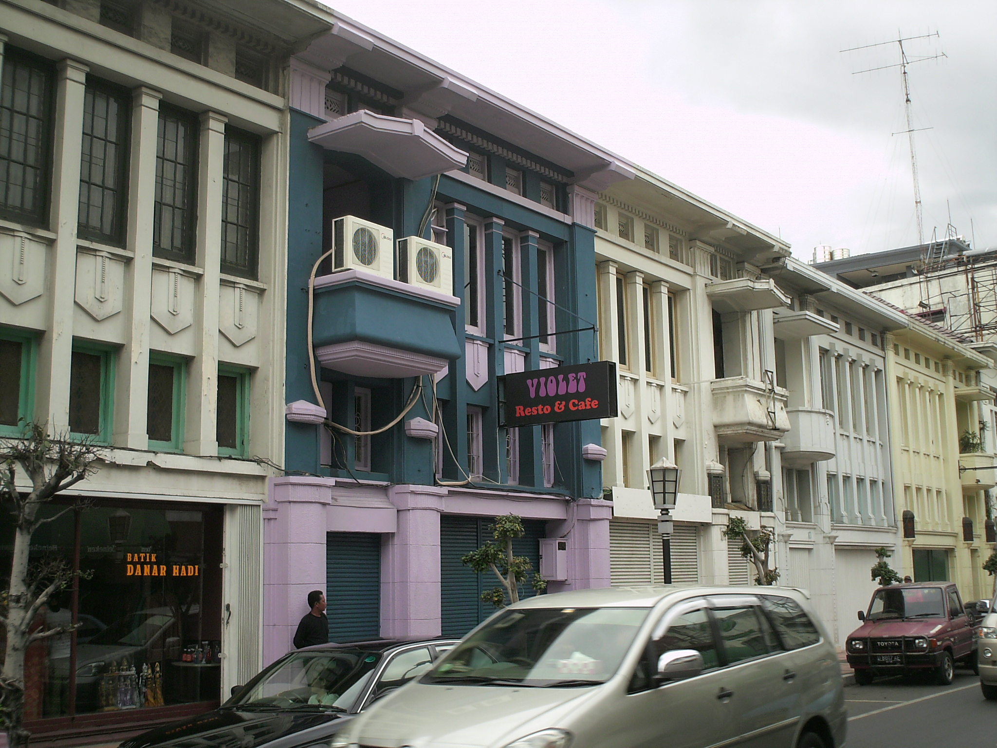 Old buildings (ca 1920s-1930s) at Braga Street in Bandung, some of which had been painted with young and trendy colors.